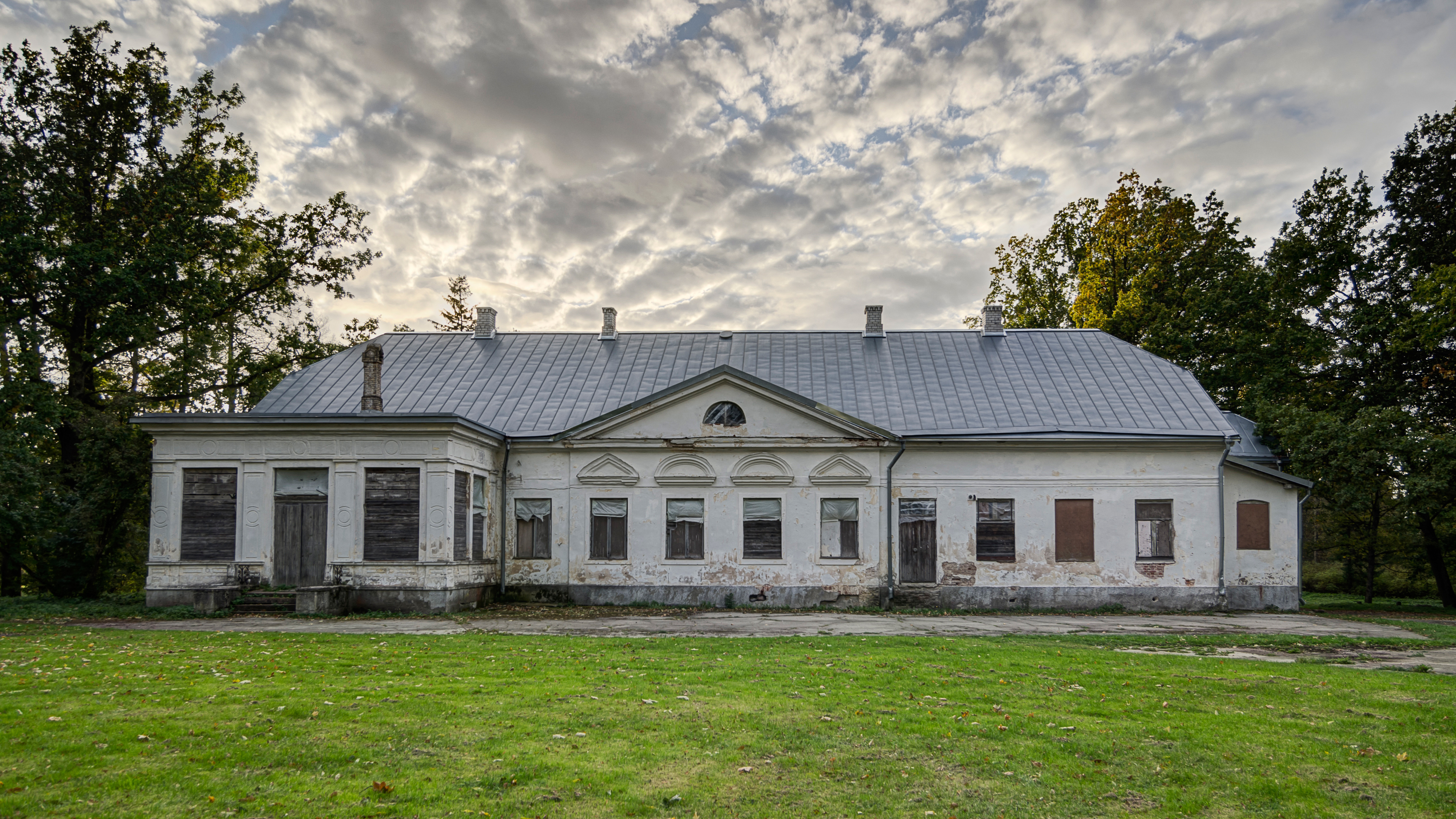 Front view of the Kiikla manor house